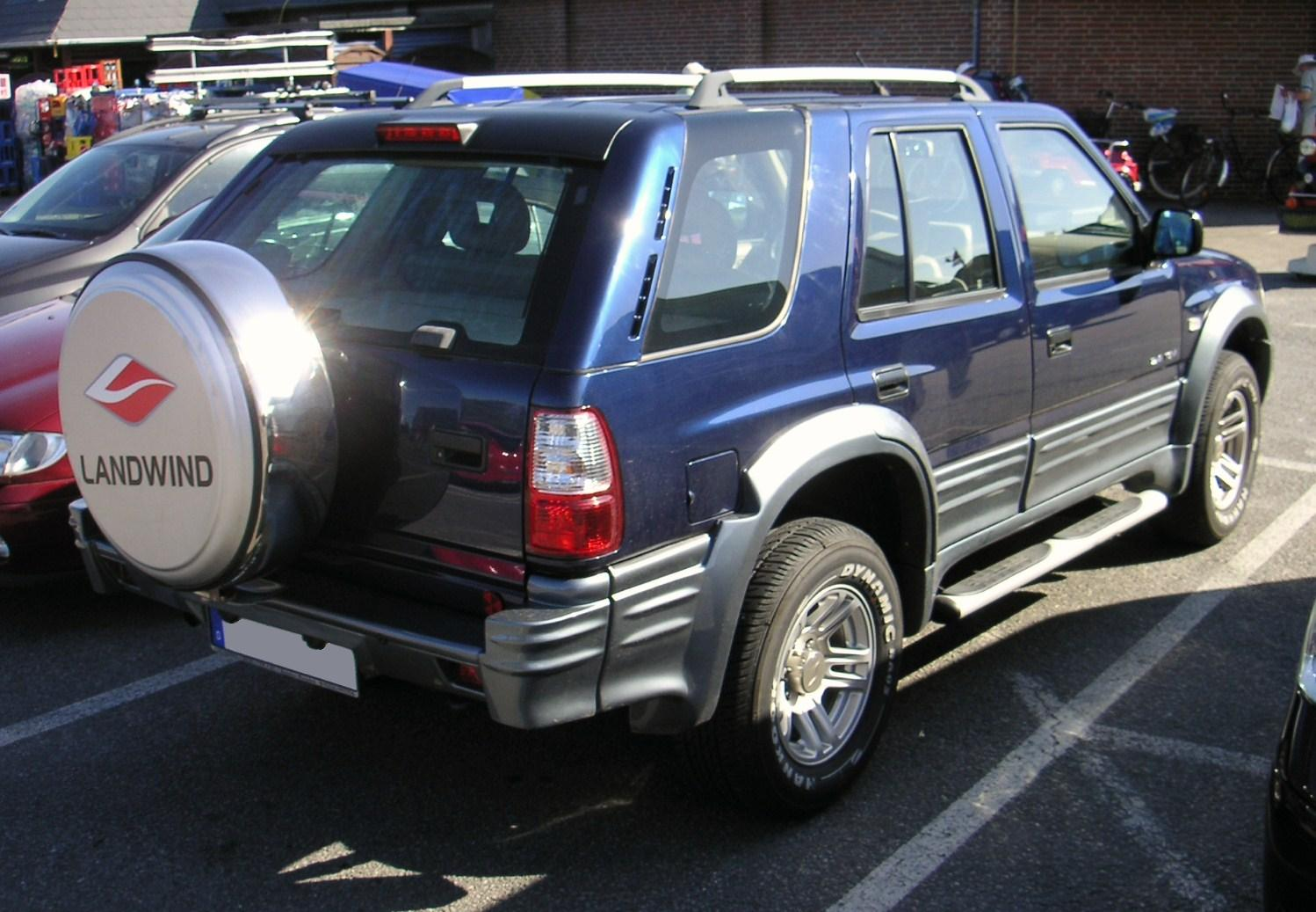 Rear-view of the "Jiangling Landwind"